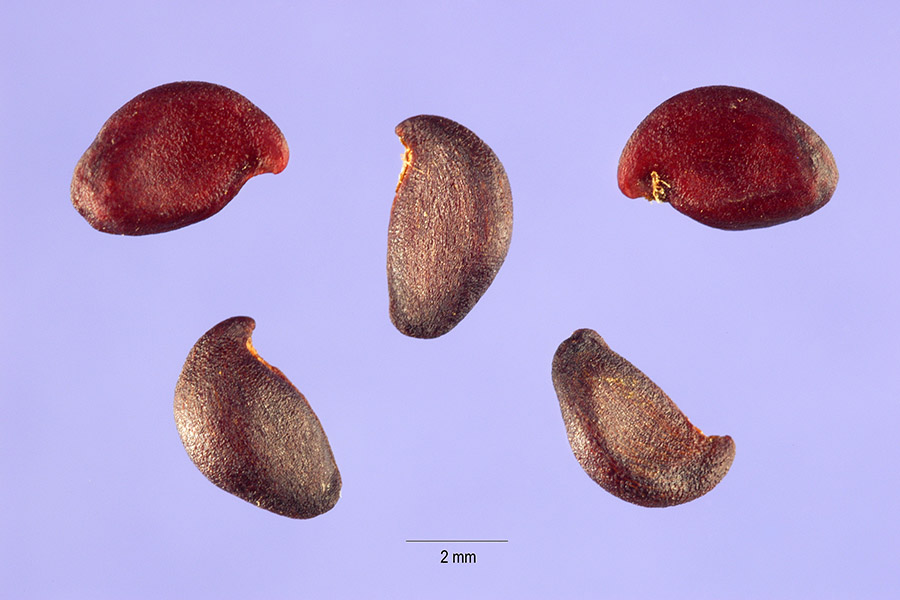 Amelanchier alnifolia